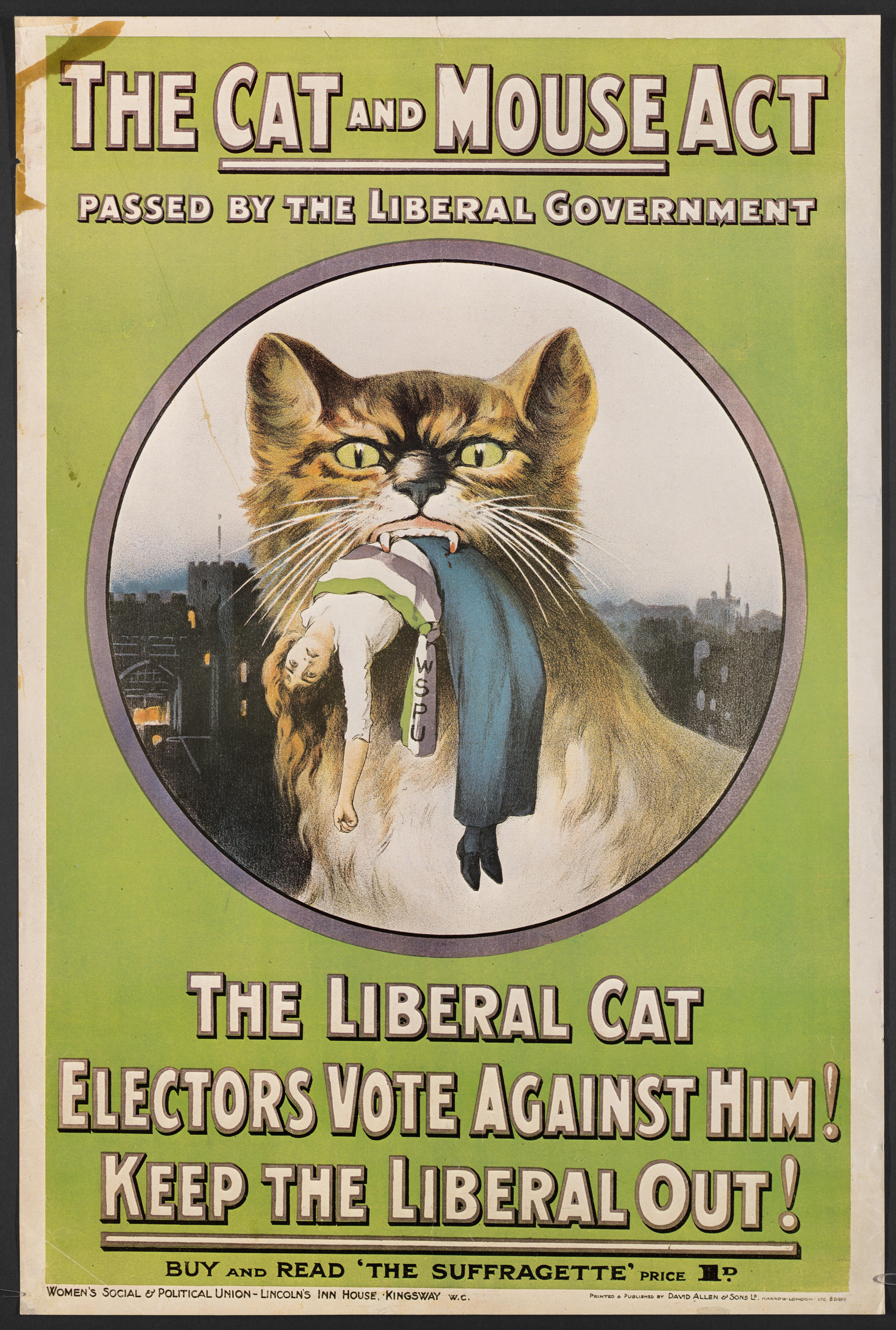 The cat and mouse act passed by the Liberal government... buy and read The Suffragette Date: 1913 Catalog Record: Questions?